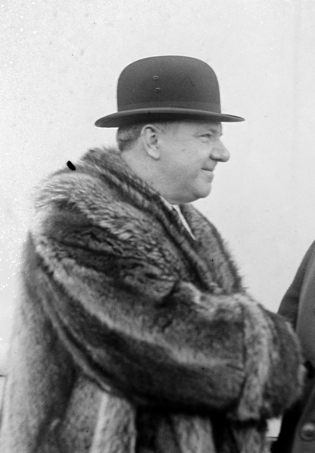 W.C. Fields